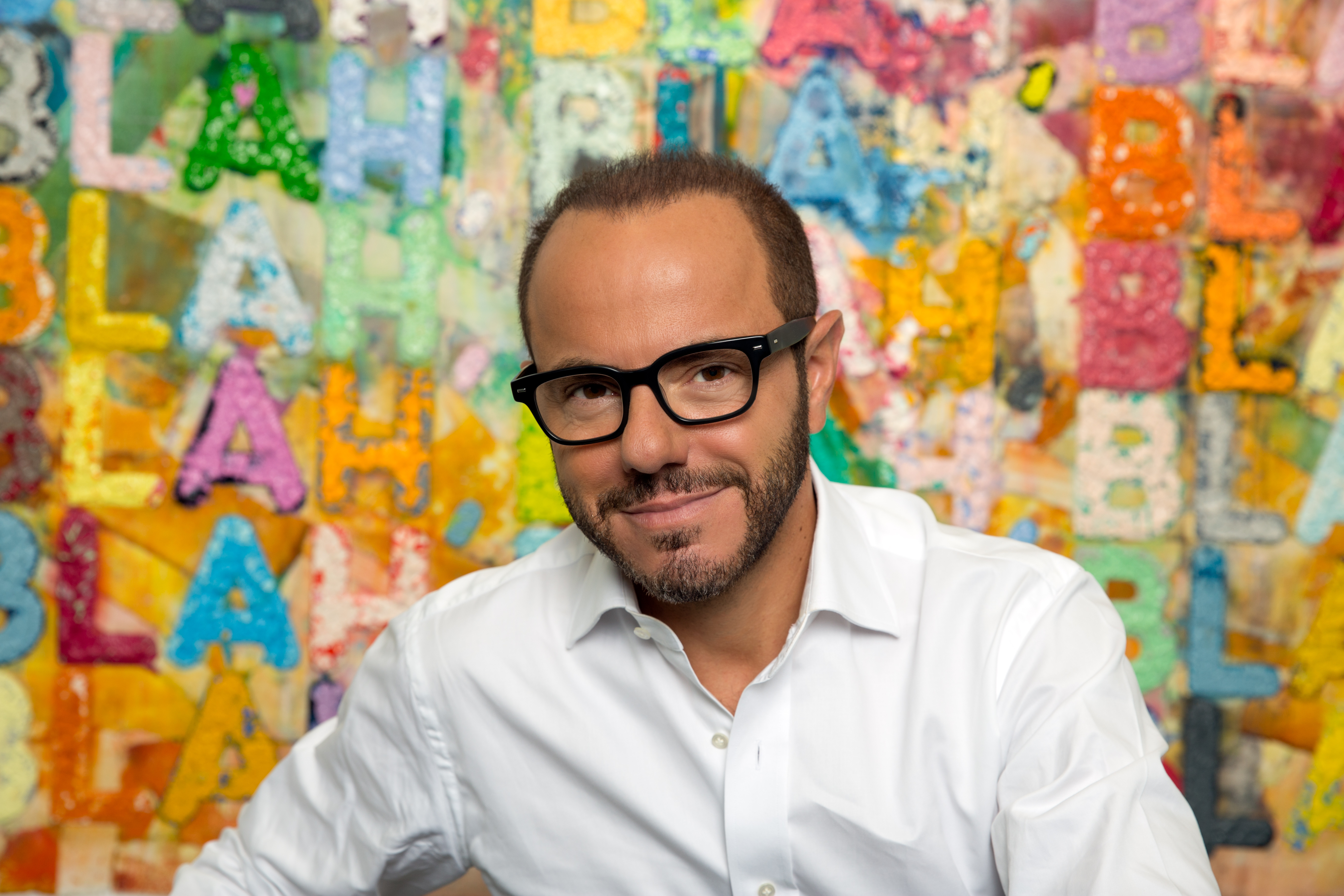 Elie Khouri, Omnicom Media Group